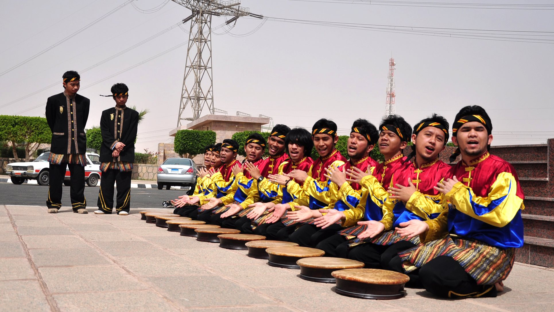 Rapa'i Geleng Dance in Egypt